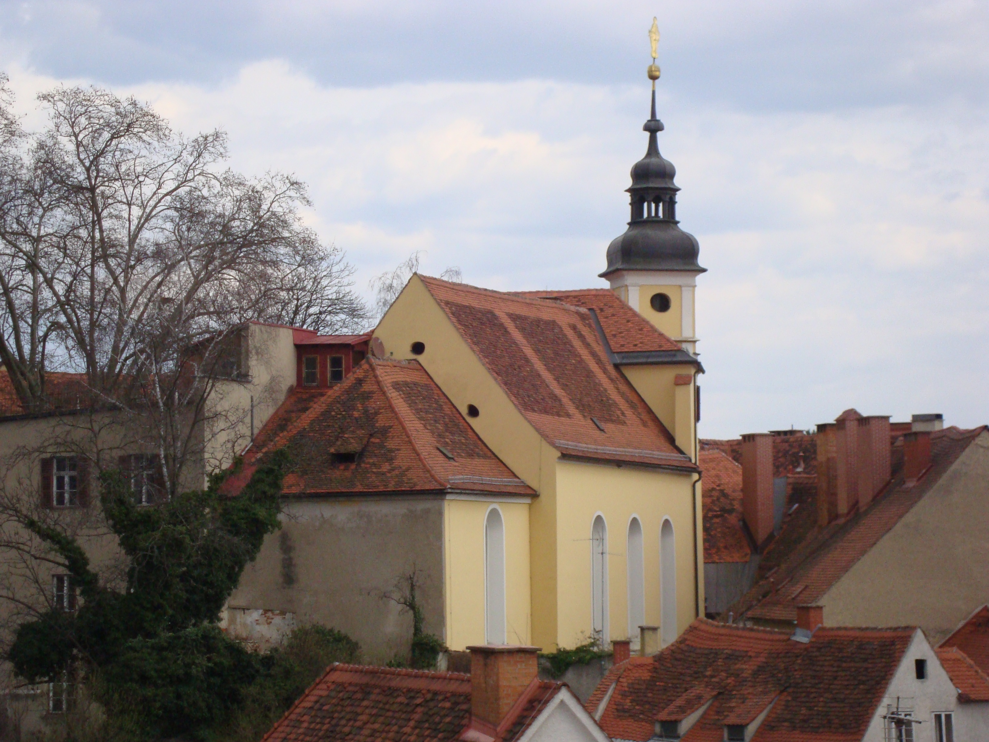 Stiegenkirche, Graz